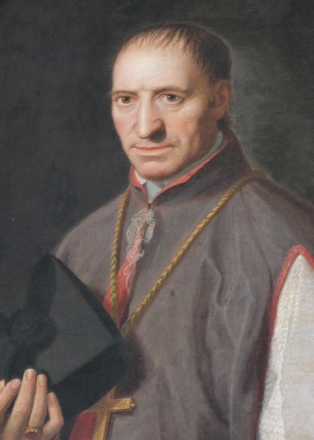 Robert Gradwell (1777-1833), katholischer Bischof, Koadjutor des Apostolischen Vikars von London